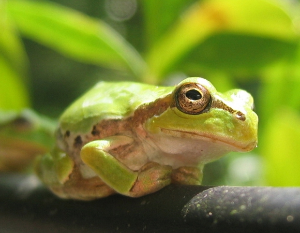 Japanese Tree Frog